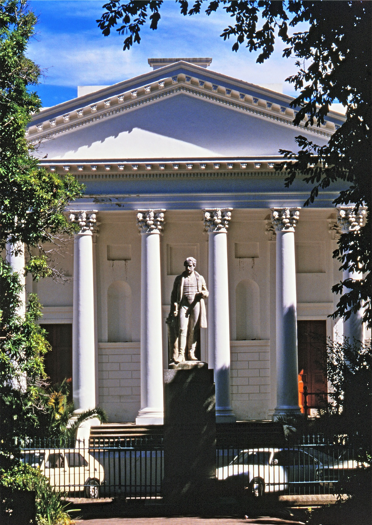 This media shows a South African Protected Site with SAHRA file reference 9/2/018/0186.